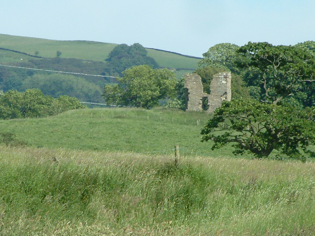 Picture of Greenhalgh Castle, Garstang